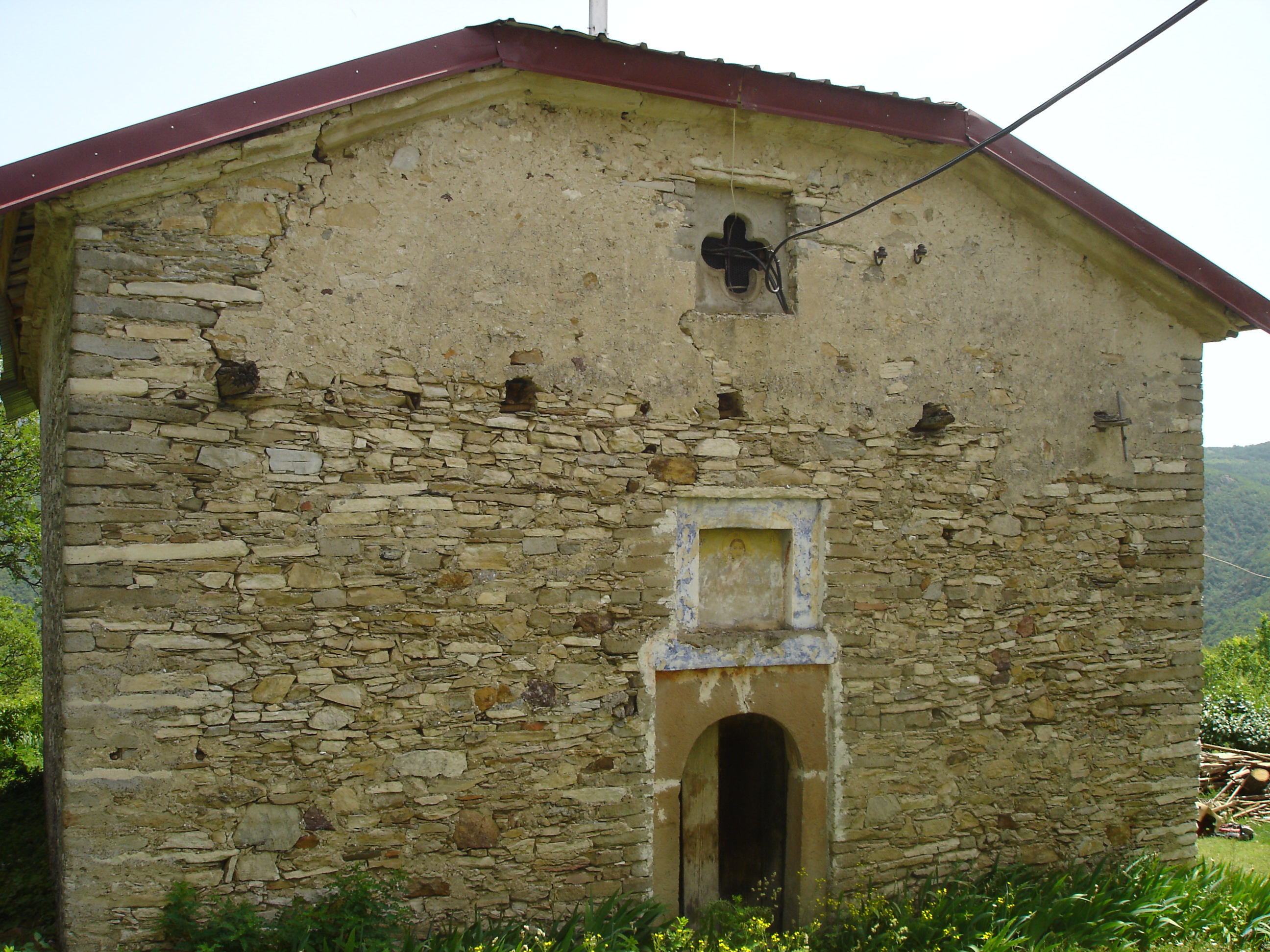 The church in village of Kozhle, Macedonia